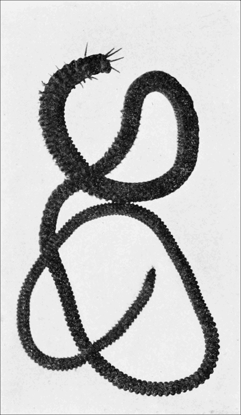 Atlantic palolo worm eunice fucata